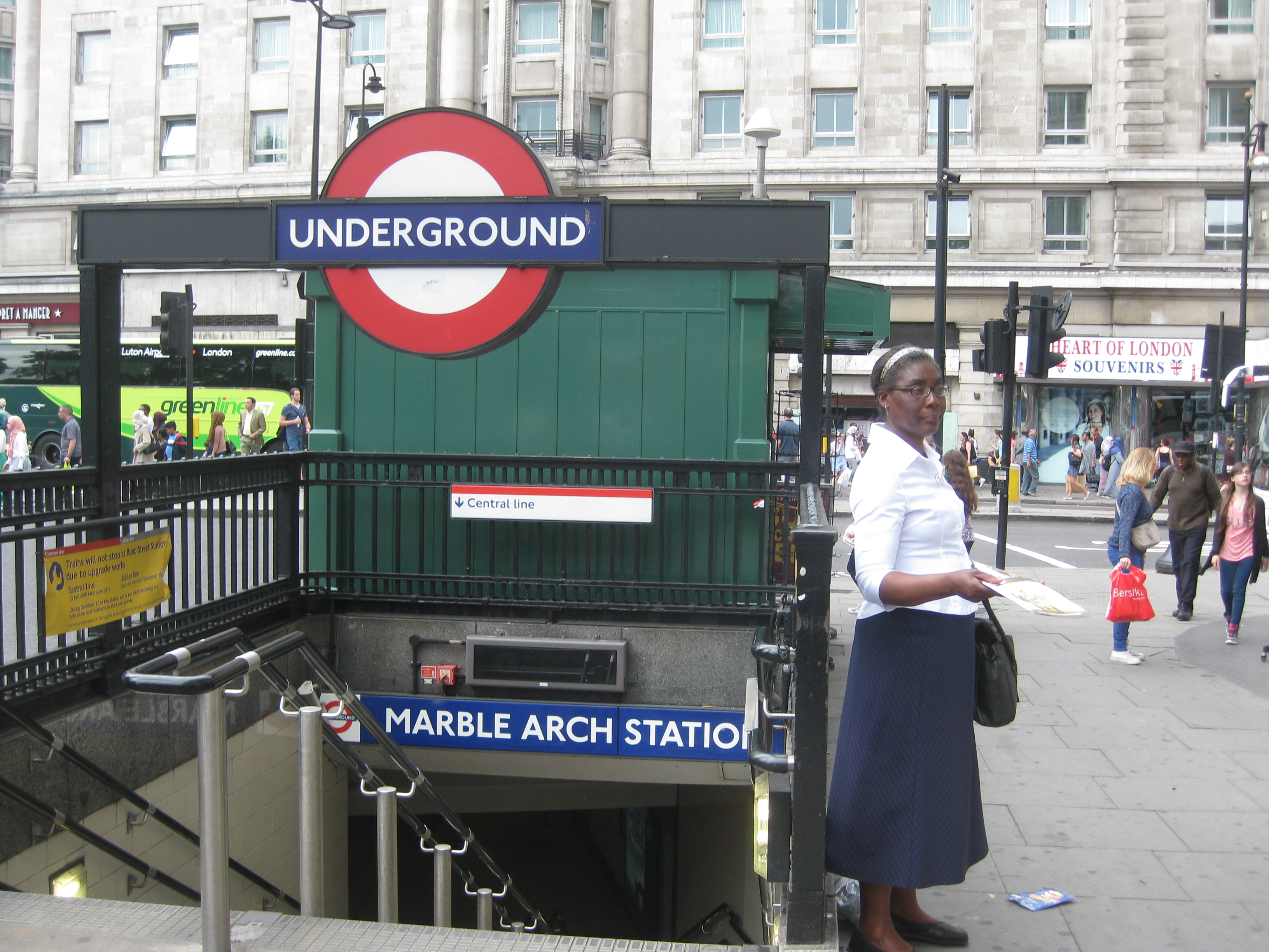 One of Jehovah's Witness distributing literature at Marble Arch tube station in London